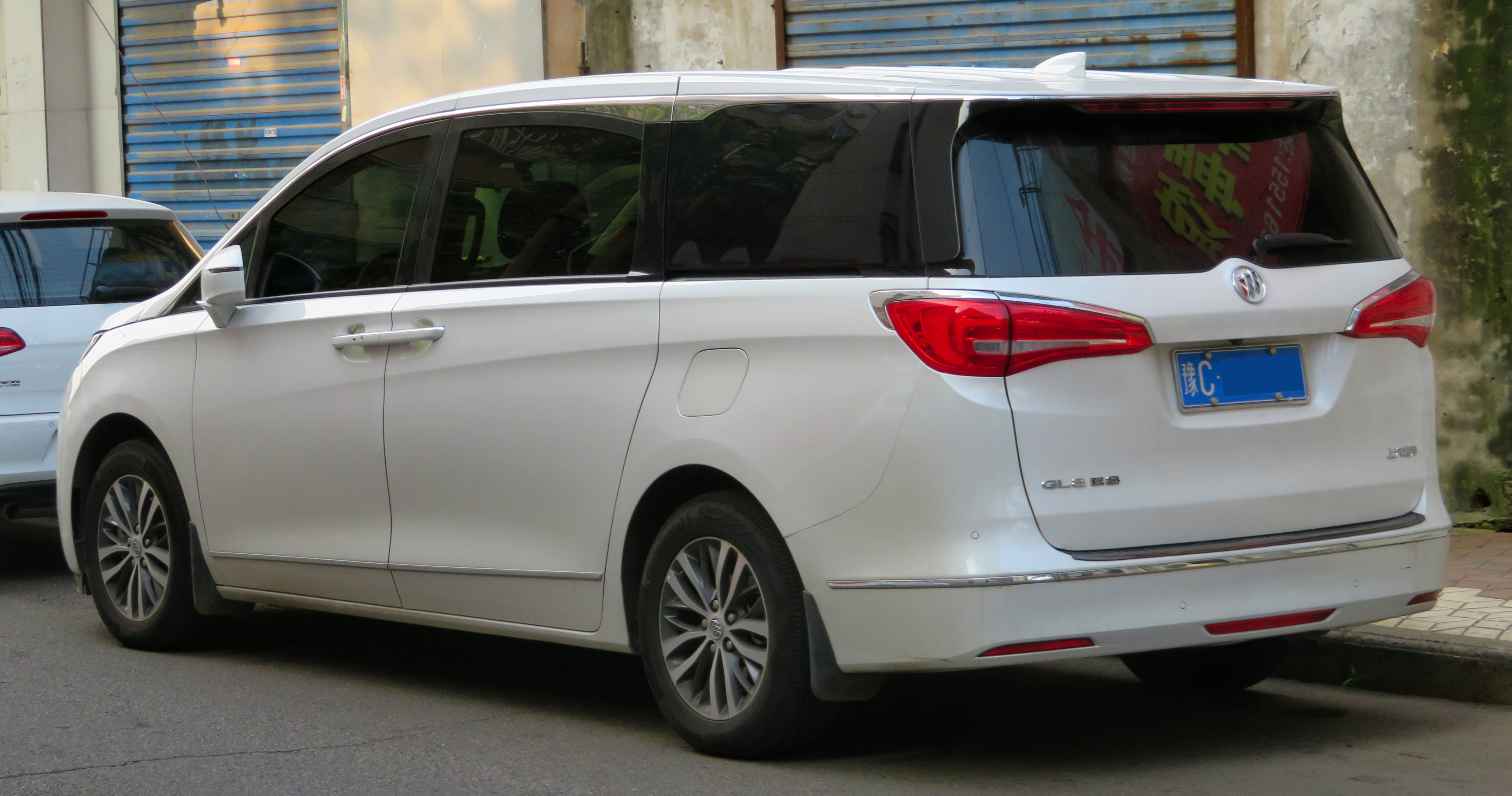 A 2017 Buick GL8 photographedin Luoyang, Henan province, China